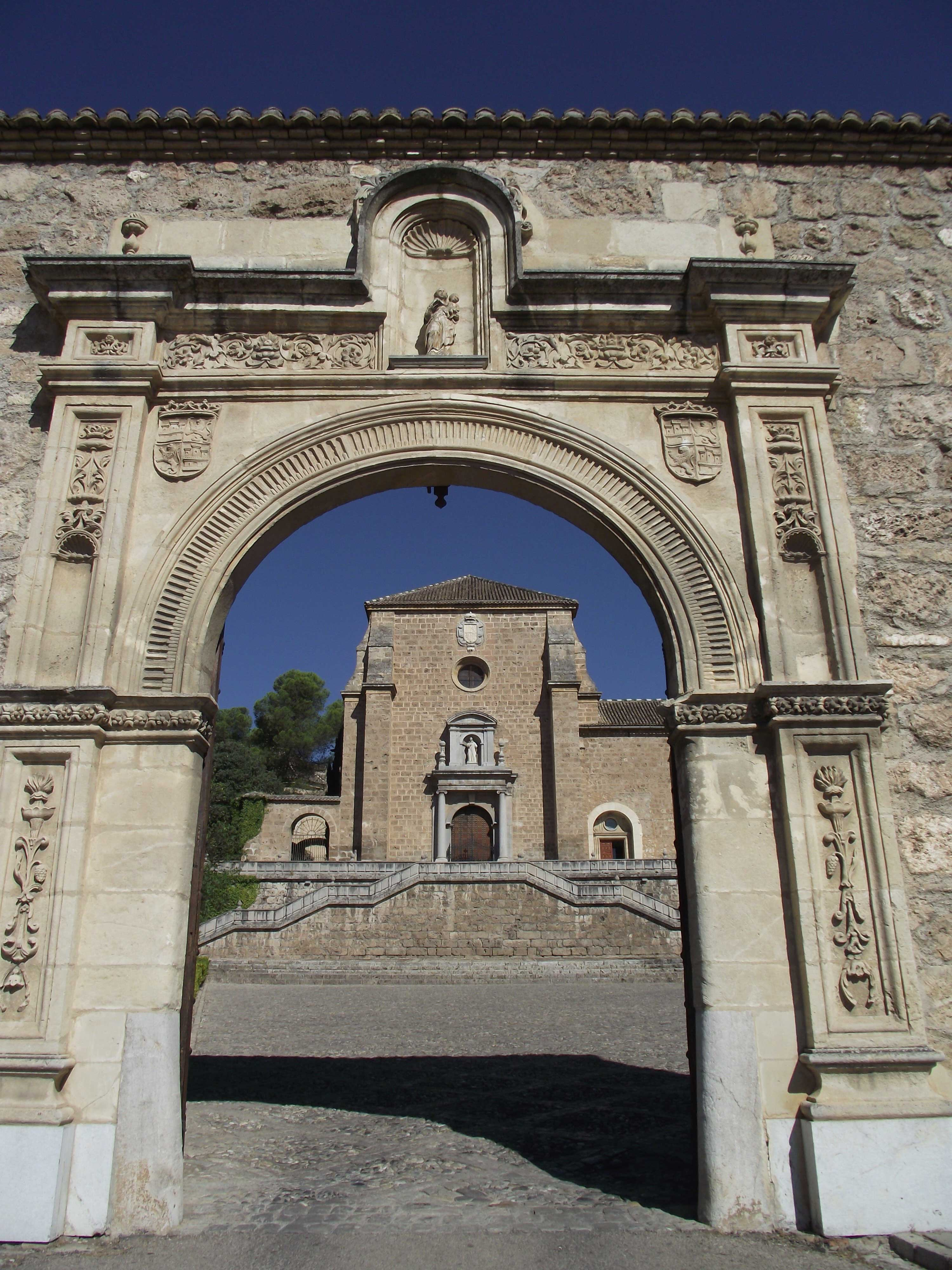 Charter house of Granada, XVI-XVIII Century